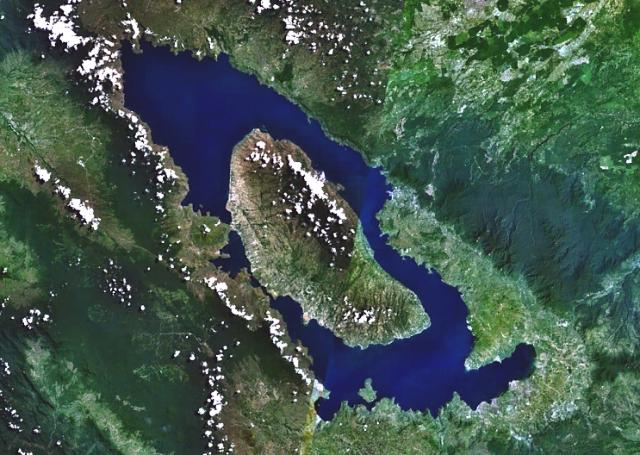 Toba, the Earth's largest Quaternary caldera, is seen here in a NASA Landsat satellite image (with north to the top). The 35 x 100 km caldera, partially filled by Lake Toba, was formed during four major ignimbrite-forming eruptions in the Pleistocene, the latest of which occurred about 74,000 years ago. The large island of Samosir is a resurgent uplifted block. The solfatarically active Pusukbukit volcano was later constructed near the south-central caldera rim, and Tandukbenua volcano on the NW rim may be only a few hundred years old.